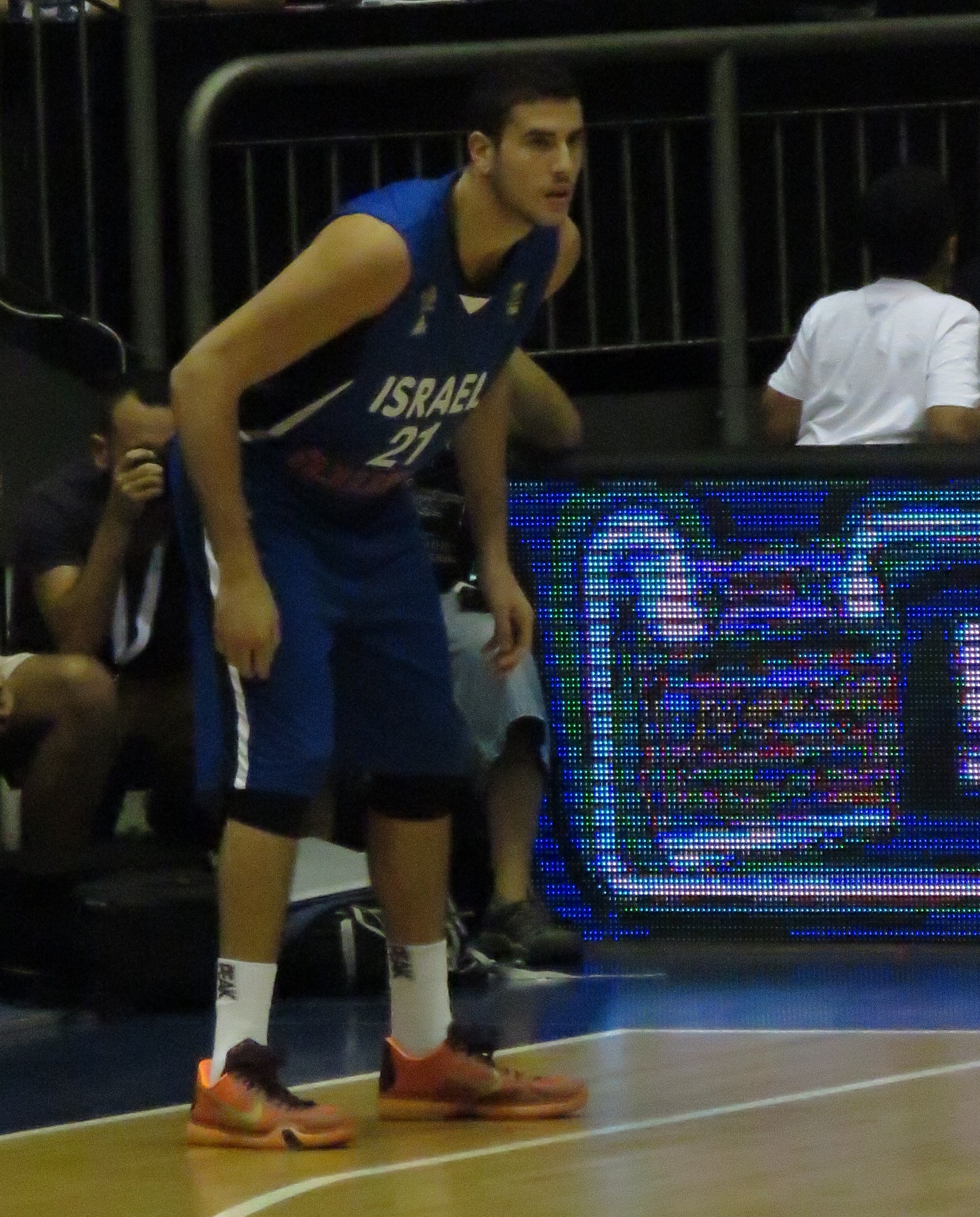 Israel vs. Serbia - August 23, 2015